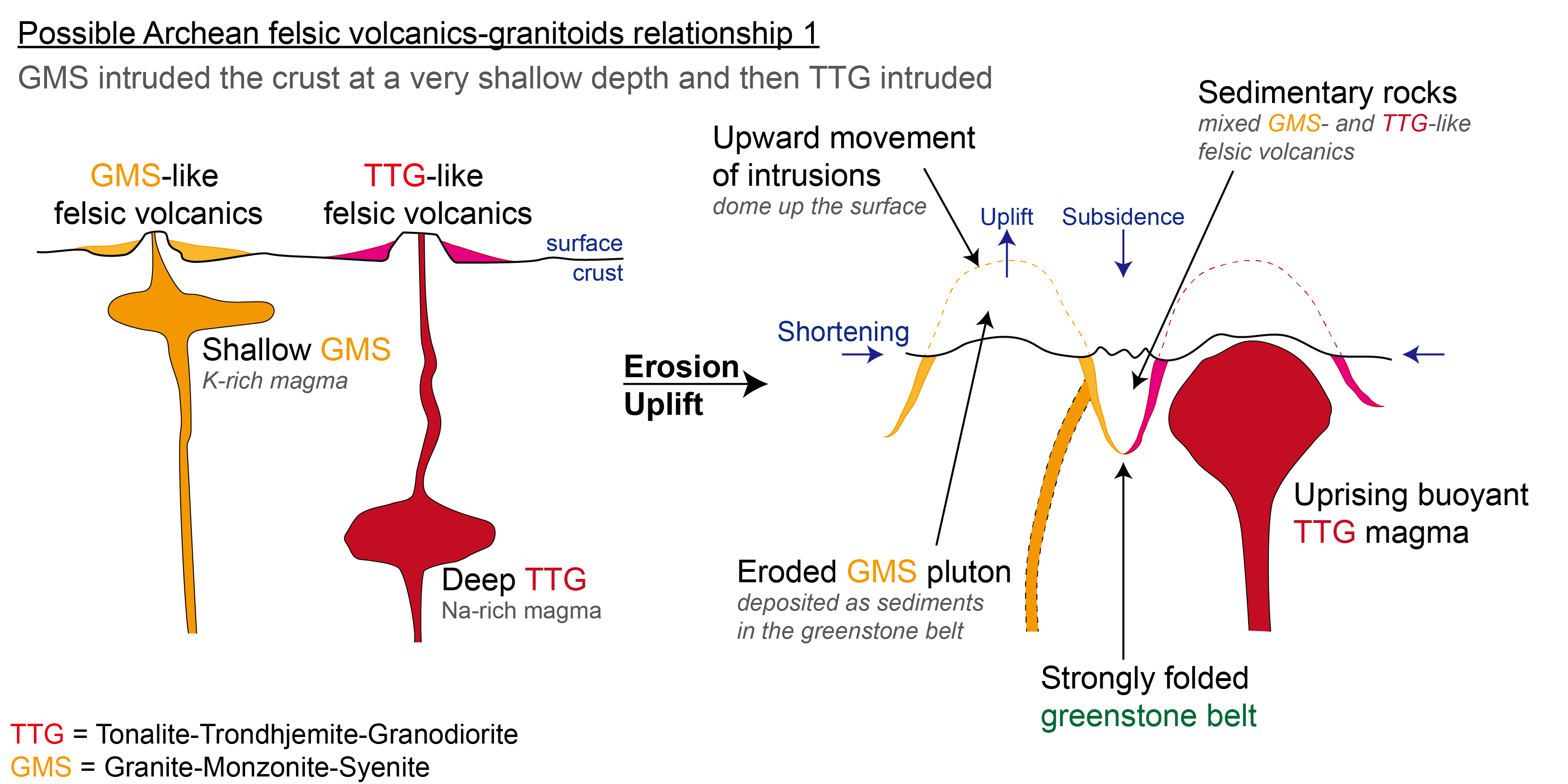 AFV Hypotheses. Adopted from Agangi et al. (2018)